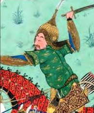 Painting of Pilsam in The Shahnama of Shah Tahmasp